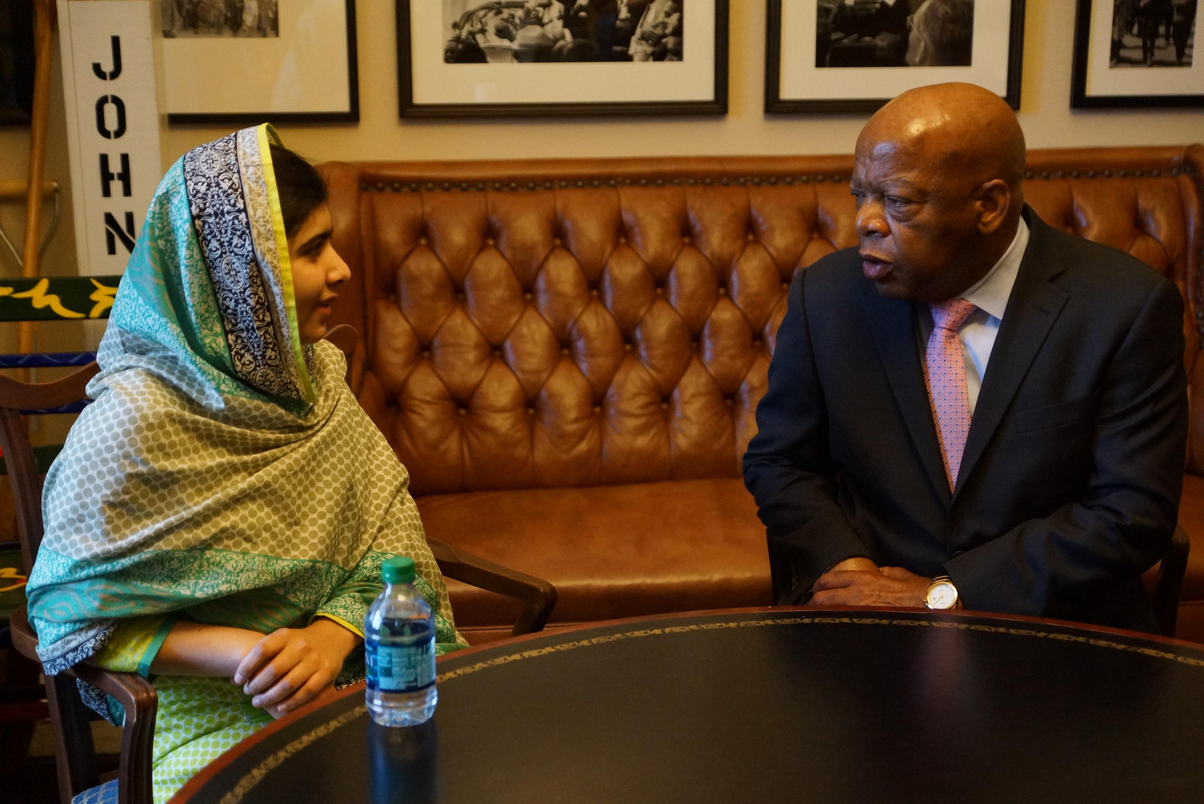 Pleased & delighted to have been visited yesterday by Malala Yousafzai. She is an inspiration to us all. @MalalaFund